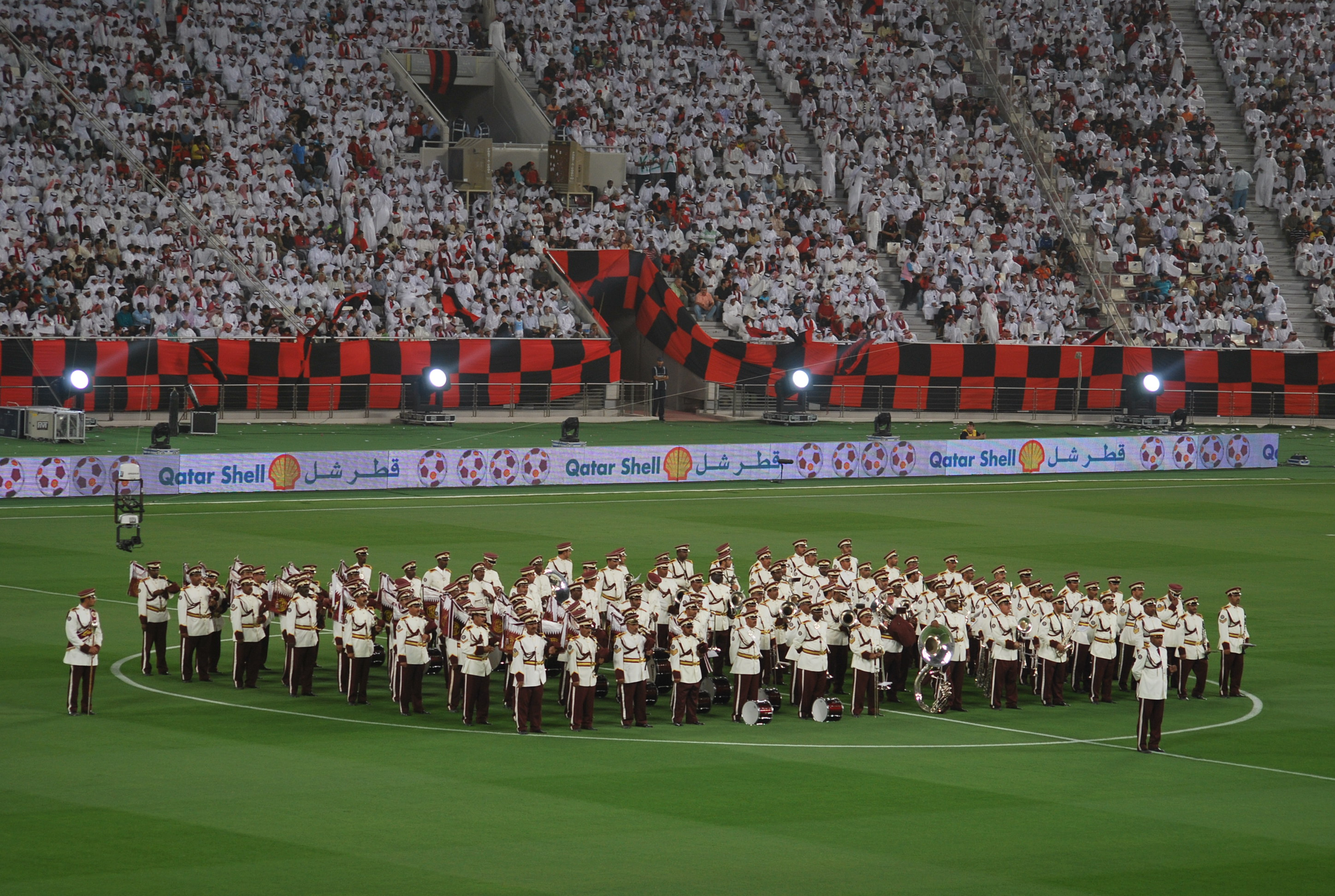 Al Gharafa vs Al Rayyan in the Qatar Emir Cup final. By D@LY3D